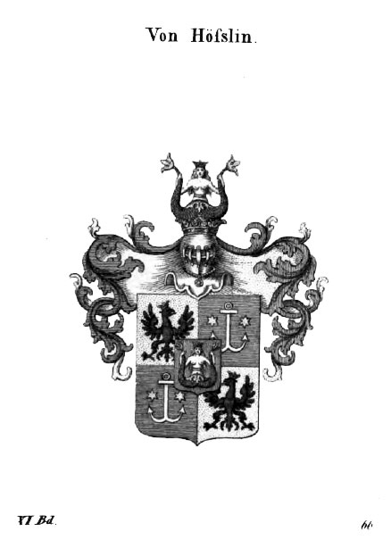 Von Hößlin (Esslin) family coat of arms, given by Leopold I